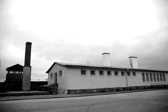 Concentratiekamp Mauthausen